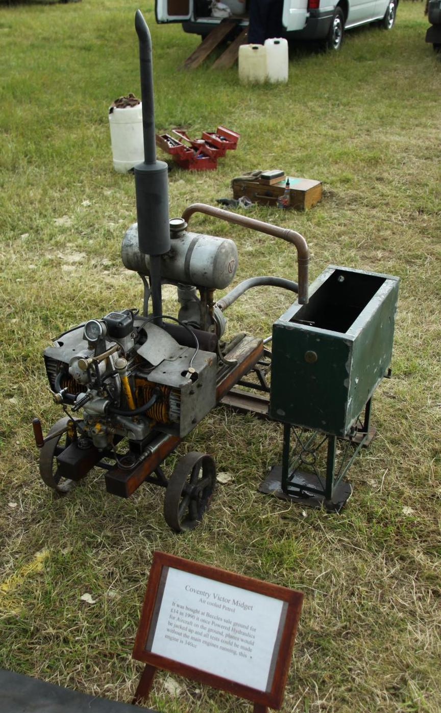 Coventry Victor Midget 540 cc petrol stationary engine used for testing aircraft hydraulics with main engines offEuston Park Rural Pastimes Event Celebrating 21 Years! A traditional, English Country Fair for all the family. Has now been held every June for 21 years. It began as a fundraising show for our local Blackbourne Churches and St Nicholas' Hospice Care with the kind permission of our President The Duke of Grafton, who allowed the event to be held in the magnificent setting of Euston Park. Together with John Farrow (the farm manager at that time) and Tim Fogden we set up a volunteer committee, which has continued to run this successful one day Show. We have raised over £370,000 for our causes over the years. The programme has been broadly similar each year, but with increasing entries the demand for space has required more parking and display areas. A new entrance between the stationary engines and stalls, leads past the traction engines to the new Grafton Ring specifically for tractors. The main Norfolk Ring has a constant programme of events, displays, demonstrations and parades. It is surrounded by band music, a busy tea tent and further stalls. Leading past the Craft Tent, the Suffolk Ring is home to a large display of Heavy Horses. Nearby is the start of the hugely popular Farm Rides. It has also been associated with a magnificent display of flowers in Euston Church. There are several catering outlets, but the most popular are the excellent lunches served in the Hall kitchen. Keeping very much to the same format we hope to continue to attract the numbers, which filled the car park completely last year. What to see: Rural Crafts Countryside Area Steam Engines (Traction Engines, Road Roller, Commercial and Public Service Vehicles) Tractors Lorries Heavy Horses Classic and Vintage Cars Motorcycles Stationary Engines Three Show Rings (Norfolk, Suffolk & Grafton) featuring many display throughout the day.